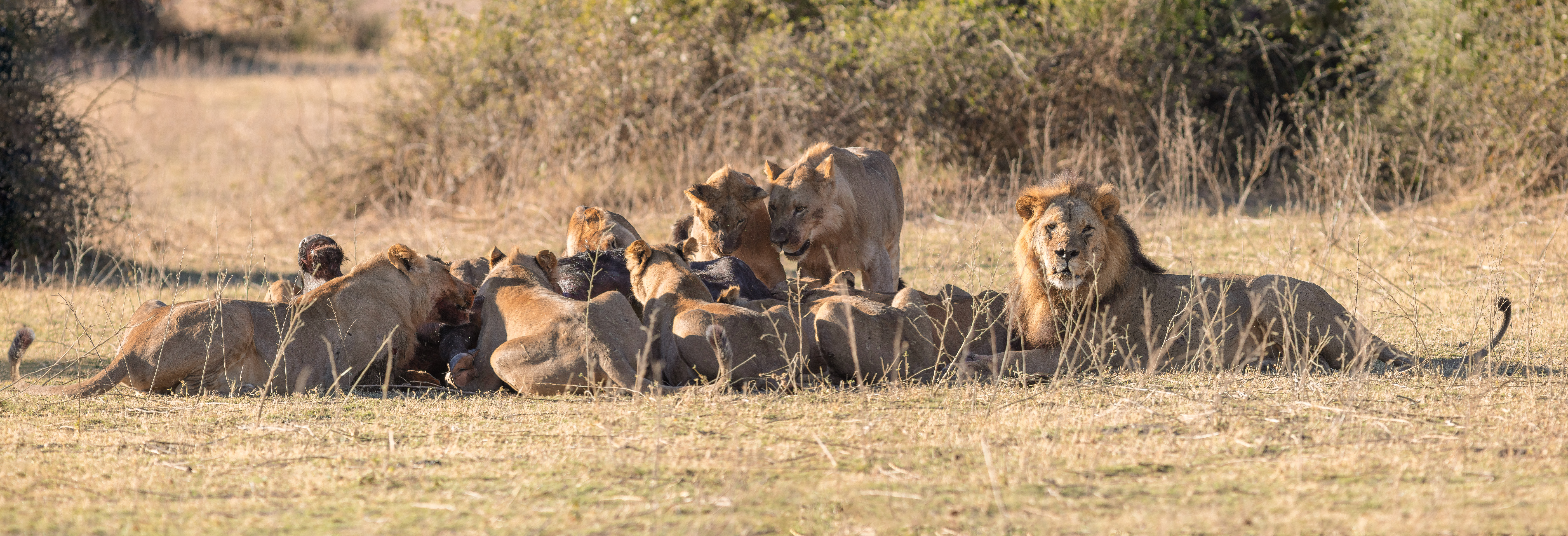 Pack of lions (Panthera leo) devoring an African buffalo (Syncerus caffer caffer), Chobe National Park, Botswana.